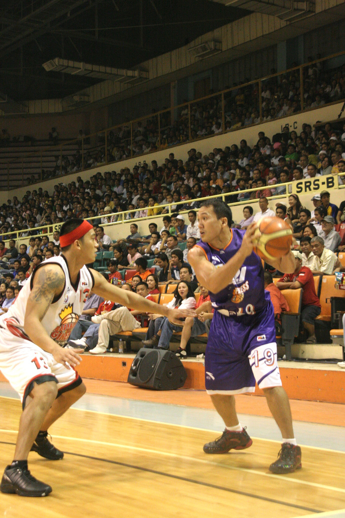 Wynne Arboleda being defended by Jayjay Helterbrand